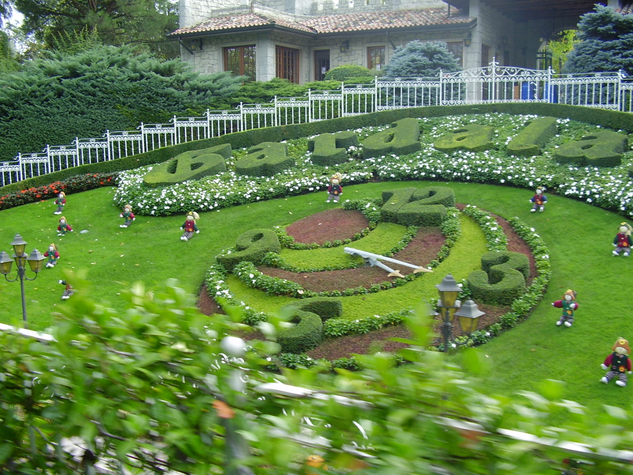 Garden in Gardaland